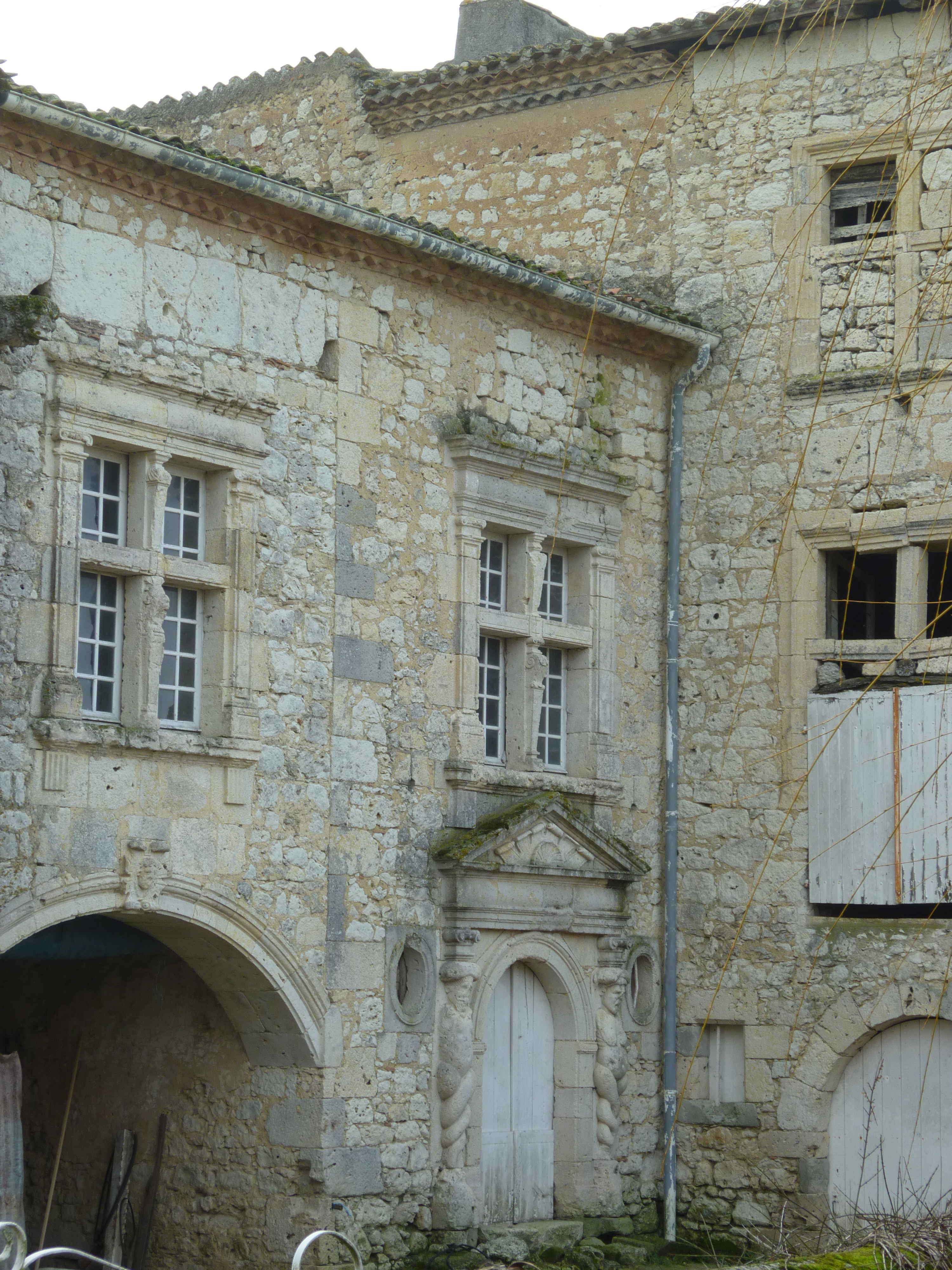 Door and muntin, château de Madirac (monument historique), La Romieu, Gers, France